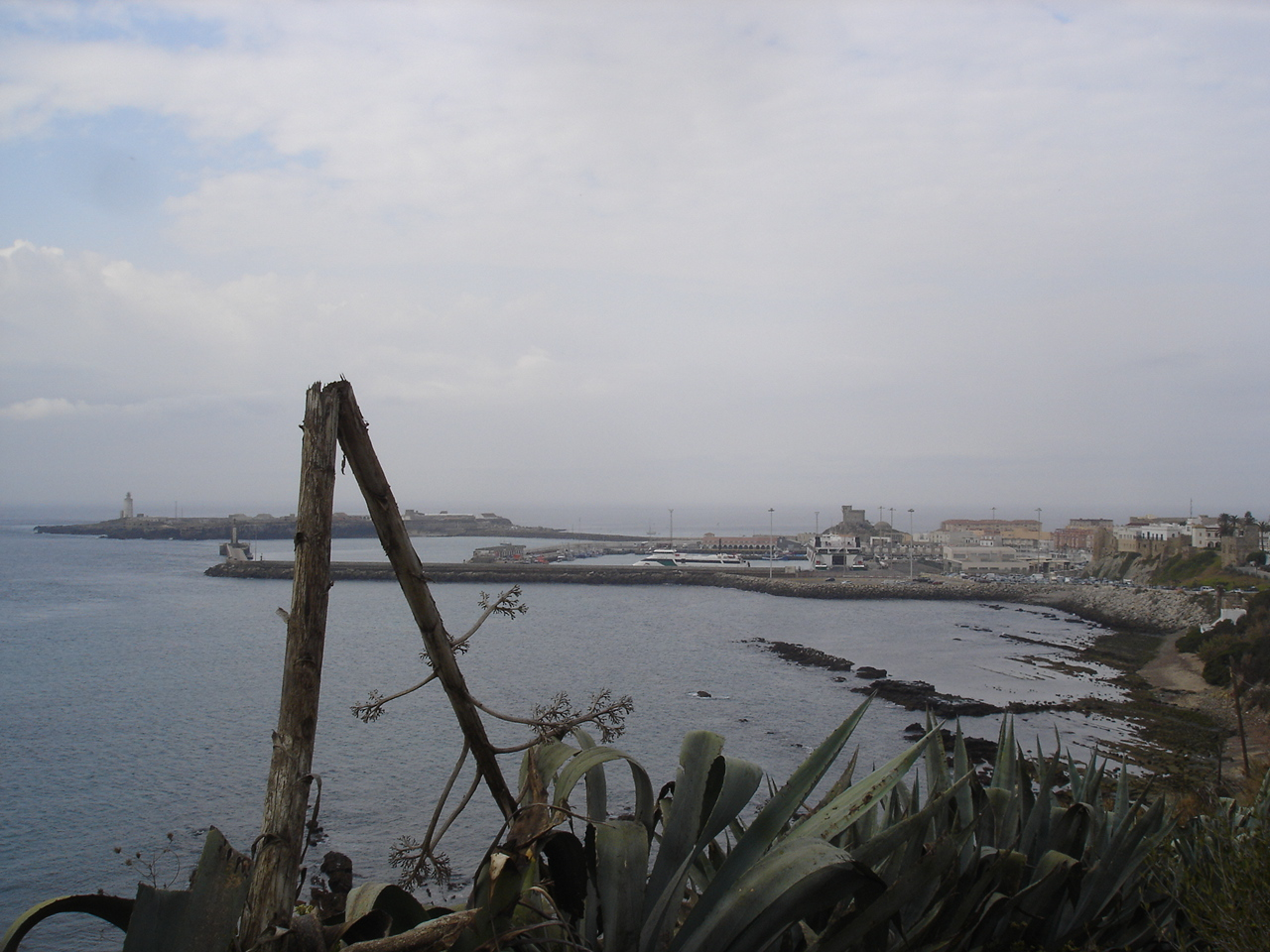 Isla de Las Palomas off the south Spanish town of Tarifa, connected by a causeway